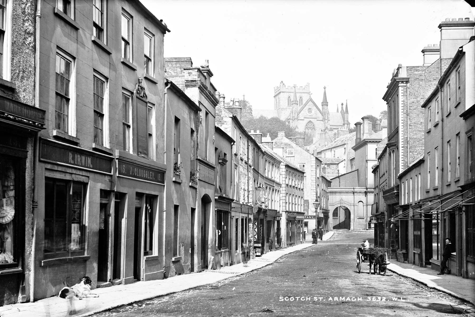 Today we pay a visit to the ecclesiastical capital of Ireland. We are in Scotch Street, Armagh, County Armagh. The lazy dog, the waiting donkey, the man on the ladder and lots more to be seen here. As with yesterday's Belfast image it was the street directories and the businesses listed that helped refine the date range for today's image. Included are the Ulster Gazette (newspaper/printers), Robert Irwin (tailor), Charles Clarke (boots/shoes), and J Cochran (cycles). Photographer: Robert French Collection: Lawrence Photograph Collection Date: Catalogue range c.1865 - 1914. Though likely after 1895 and possibly before 1903/1905. NLI Ref: L_CAB_03632 You can also view this image, and many thousands of others, on the NLI’s catalogue at